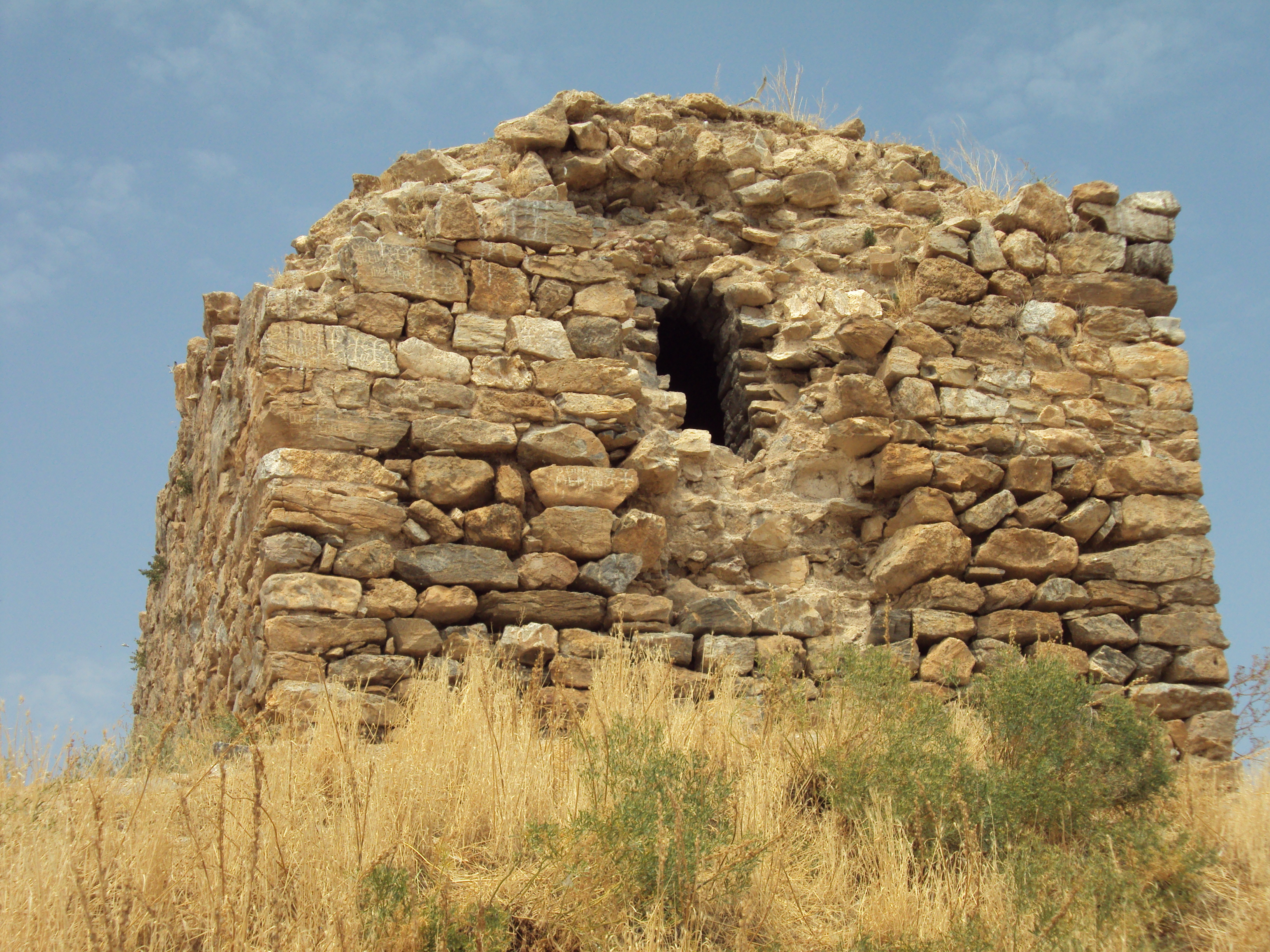 Ruins of Armenian Мonastery, Arter Island, Lake Van